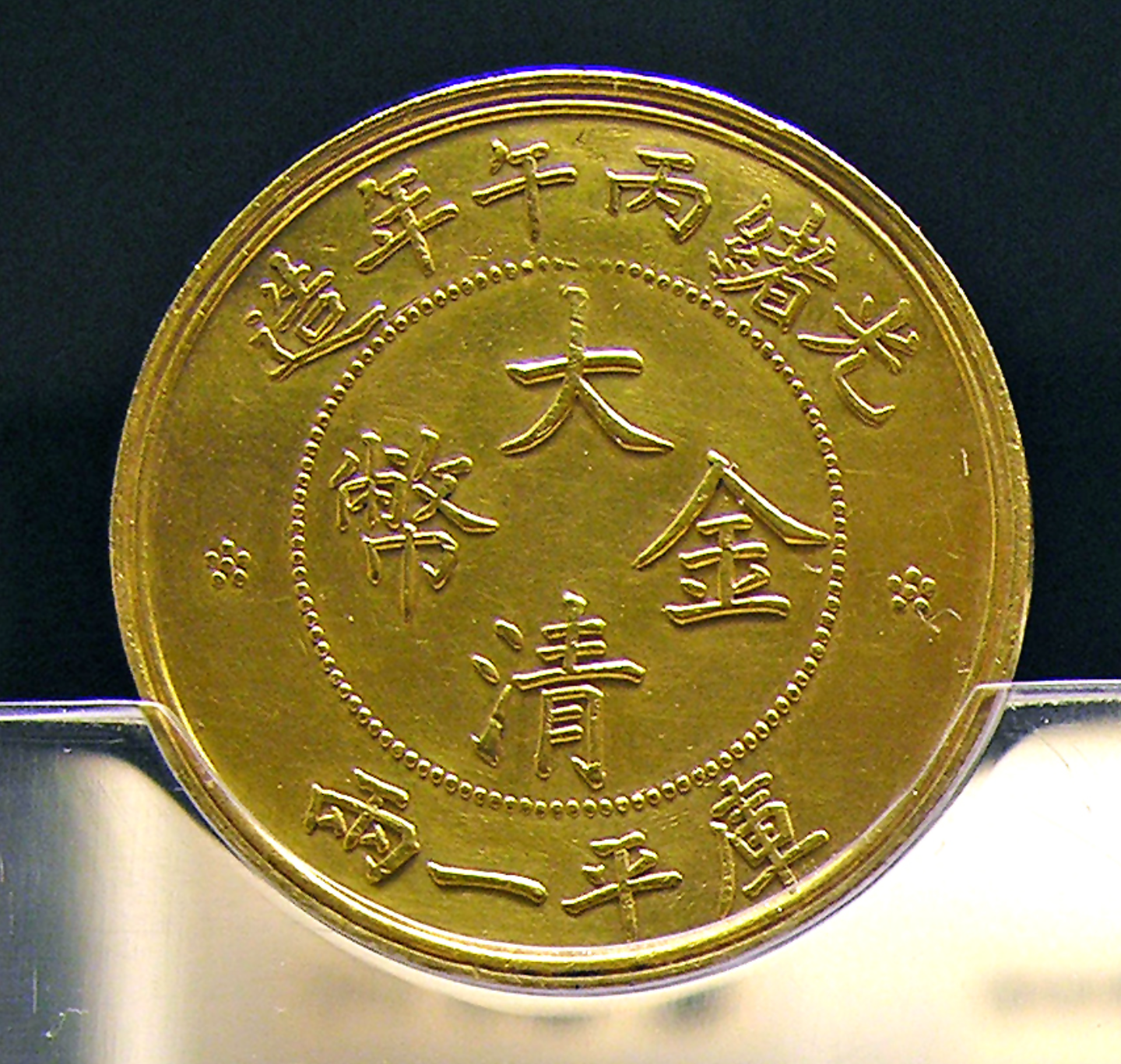 A Da-Qing Jinbi gold coin issued under the reign of the Guangxu Emperor of the Manchu Qing Dynasty.